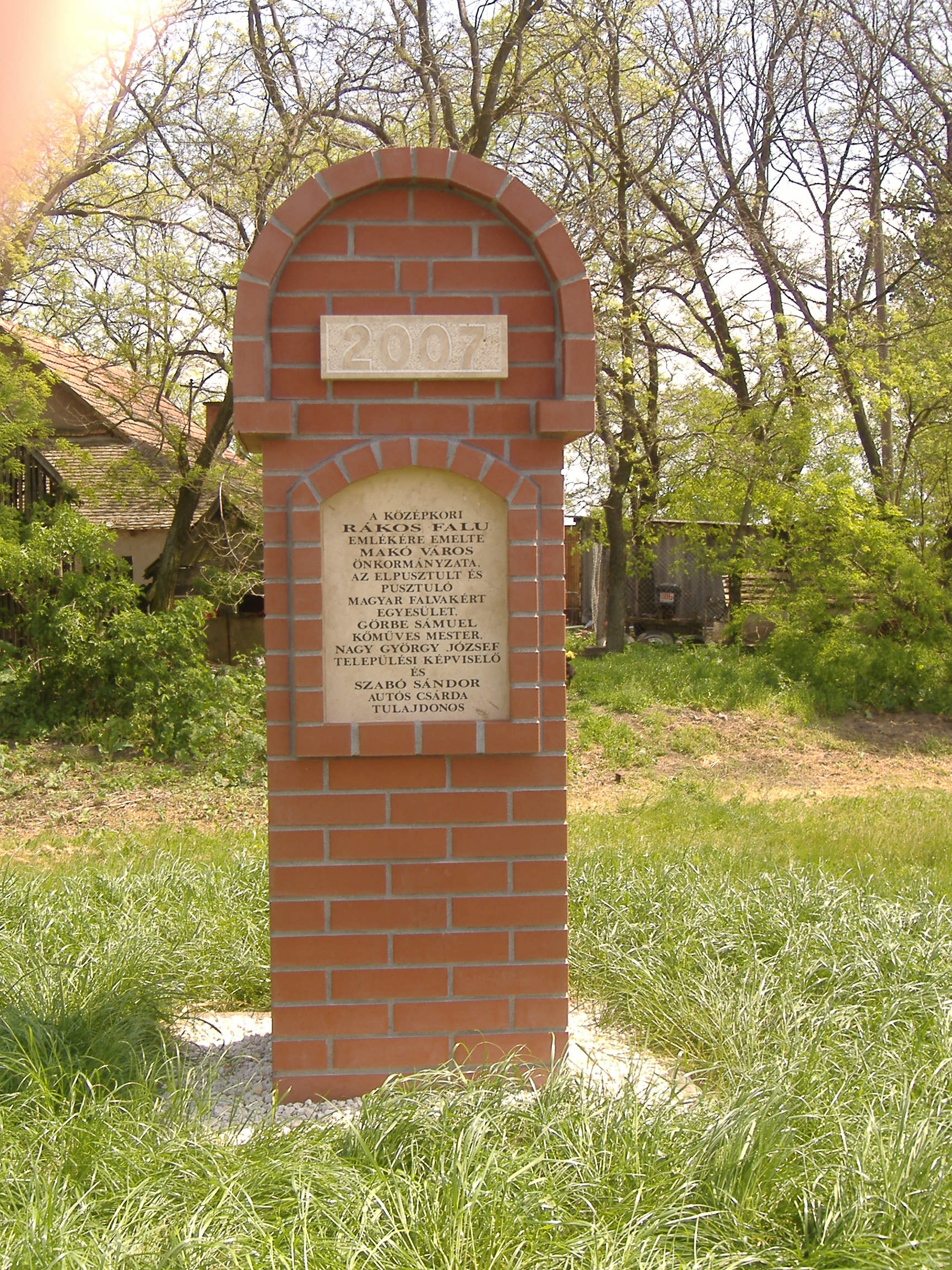 Monument commemorating to the medieval history of the former village in Rákos, now part of Makó.